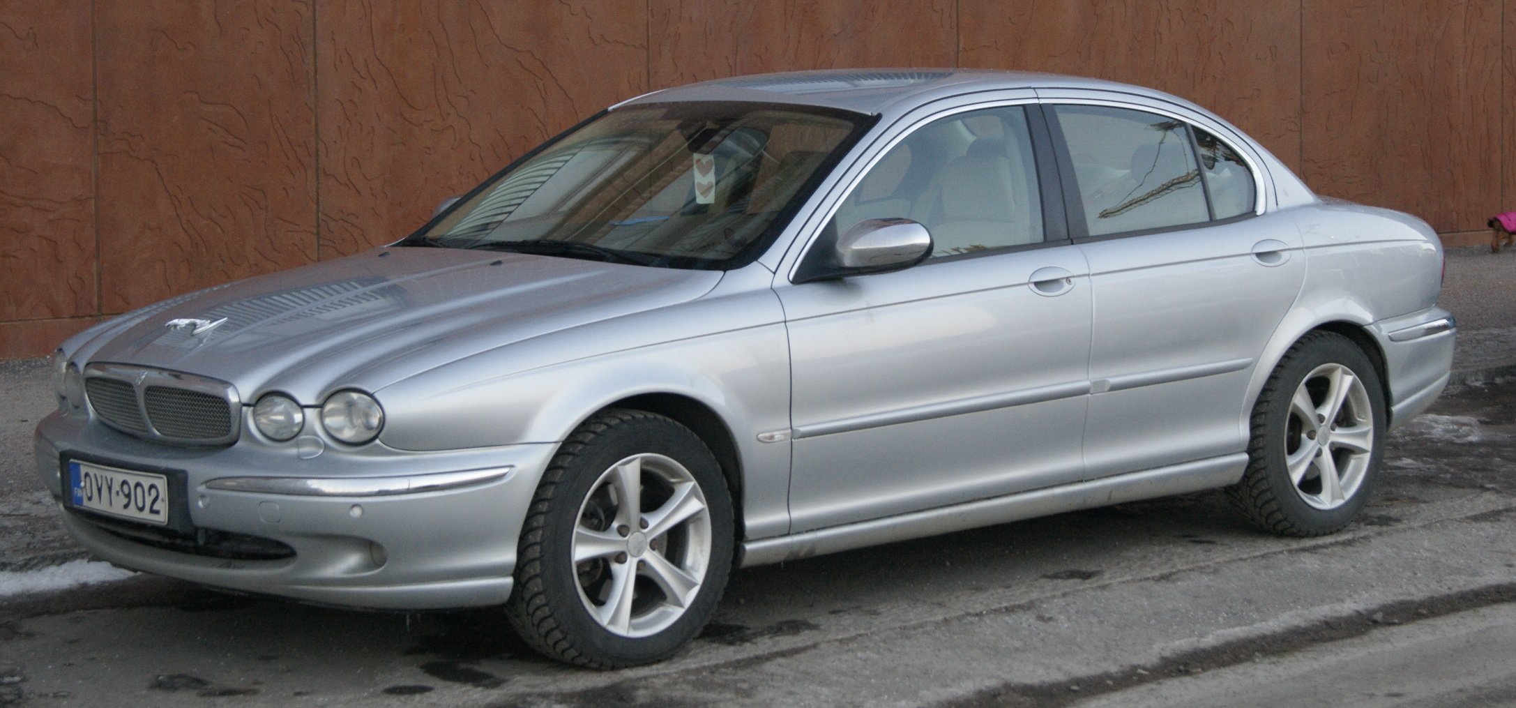 2007 Jaguar X-Type